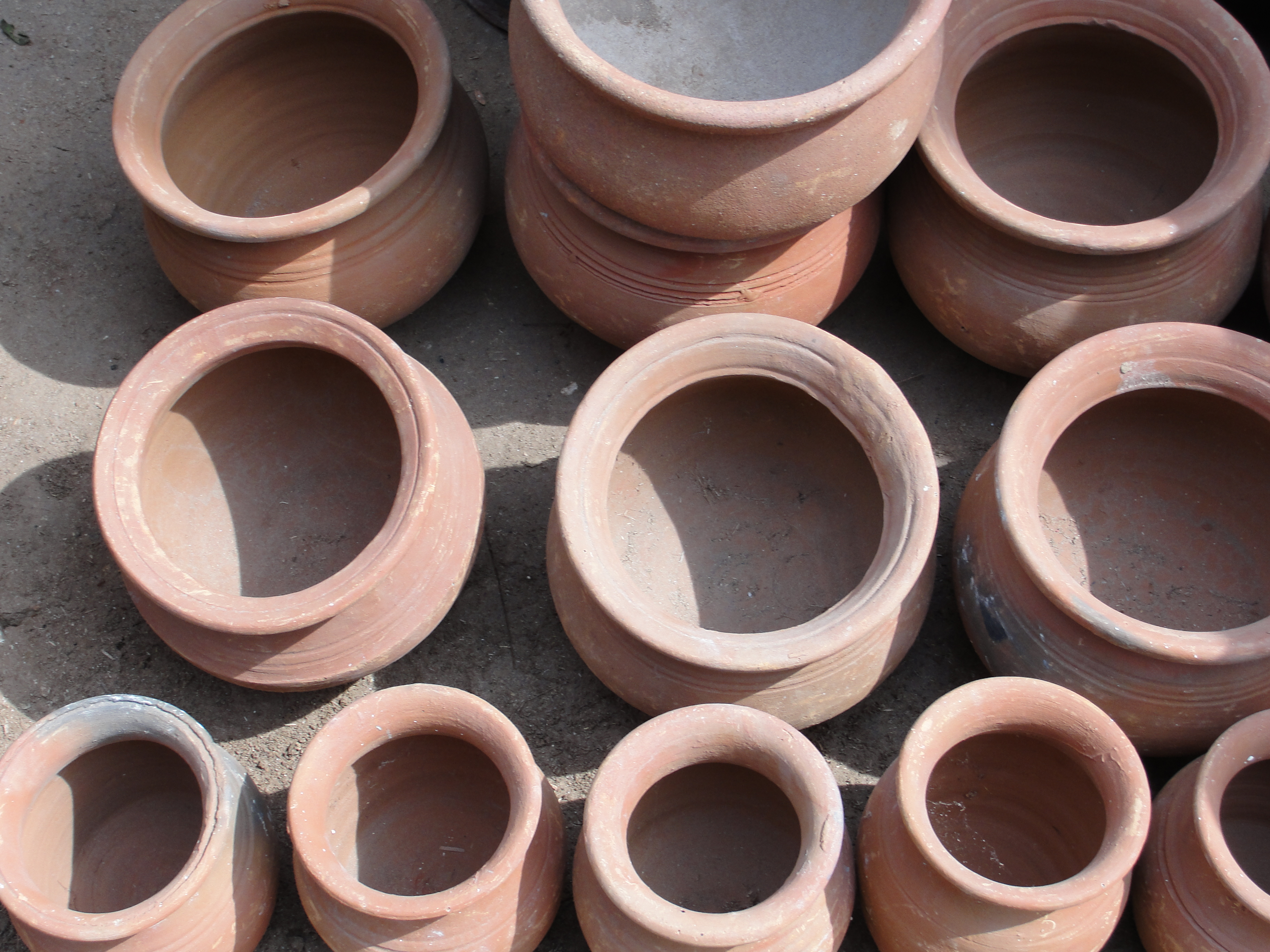 A scene of mud pots